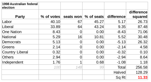 Gallagher Index, 1998 Australian Federal Election